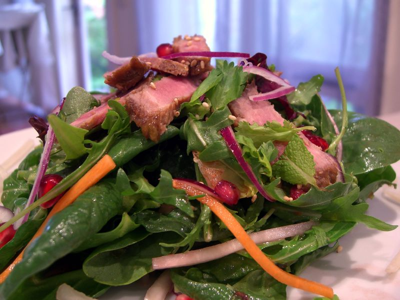 I made a refreshing salad for dinner from some leftover roast beef and a simple vinaigrette with pomegranate and lemon juice. I added some shredded mint, because it was summer, and it is growing profusely in my backyard, and because I love mint! :) The lunch version was simpler .